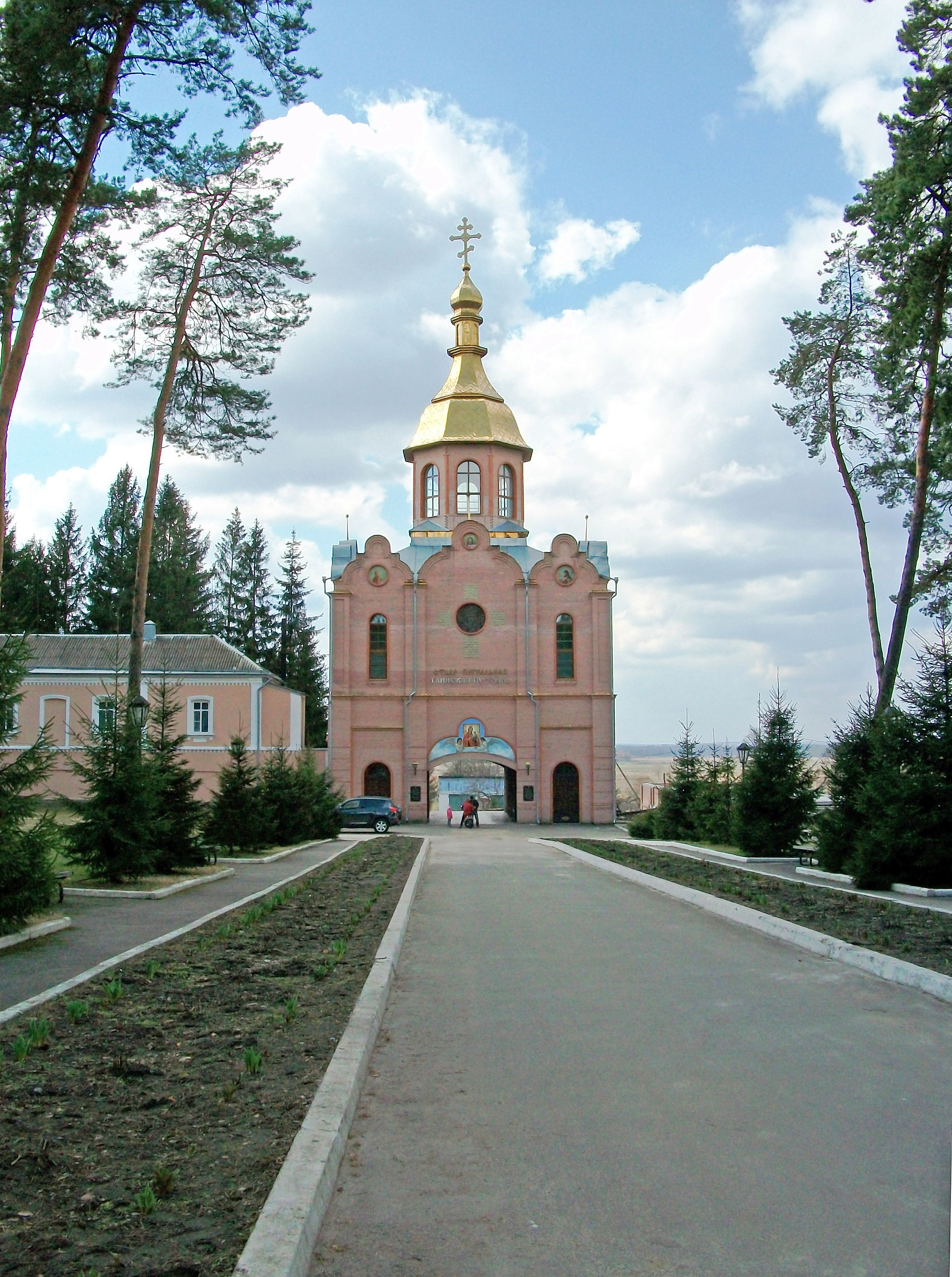 Glinskaya desert, Glukhiv area